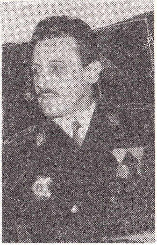 Predrag M. Pavlovic serbian writer